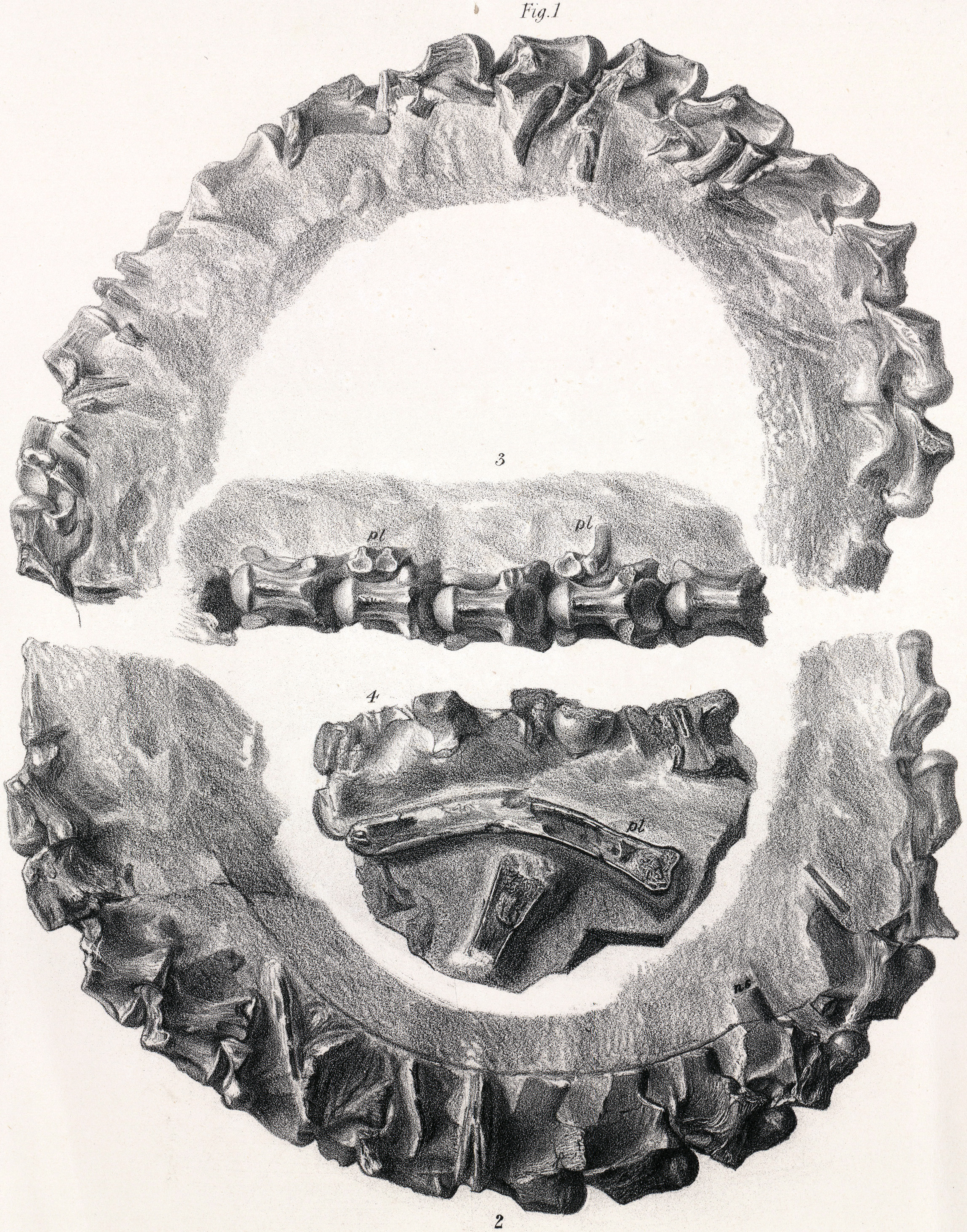 Ophidia. Fig. 1. Left side view of a chain of thirty trunk vertebræ of the Palæophis toliapicus, from Sheppy. Fig. 2. Right side view of the same vertebræ. Fig. 3. Under view of five vertebræ of the same chain, with the articular ends of some of the ribs. Fig. 4. Portion of a group of Palæophis vertebræ from Bracklesham, showing the size and structure of the ribs; natural size.